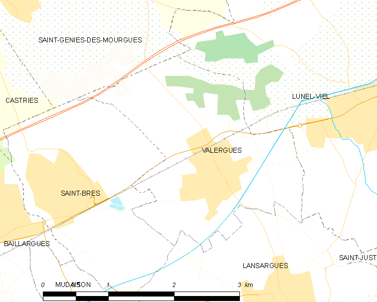 Map commune FR insee code 34321.png - Valergues